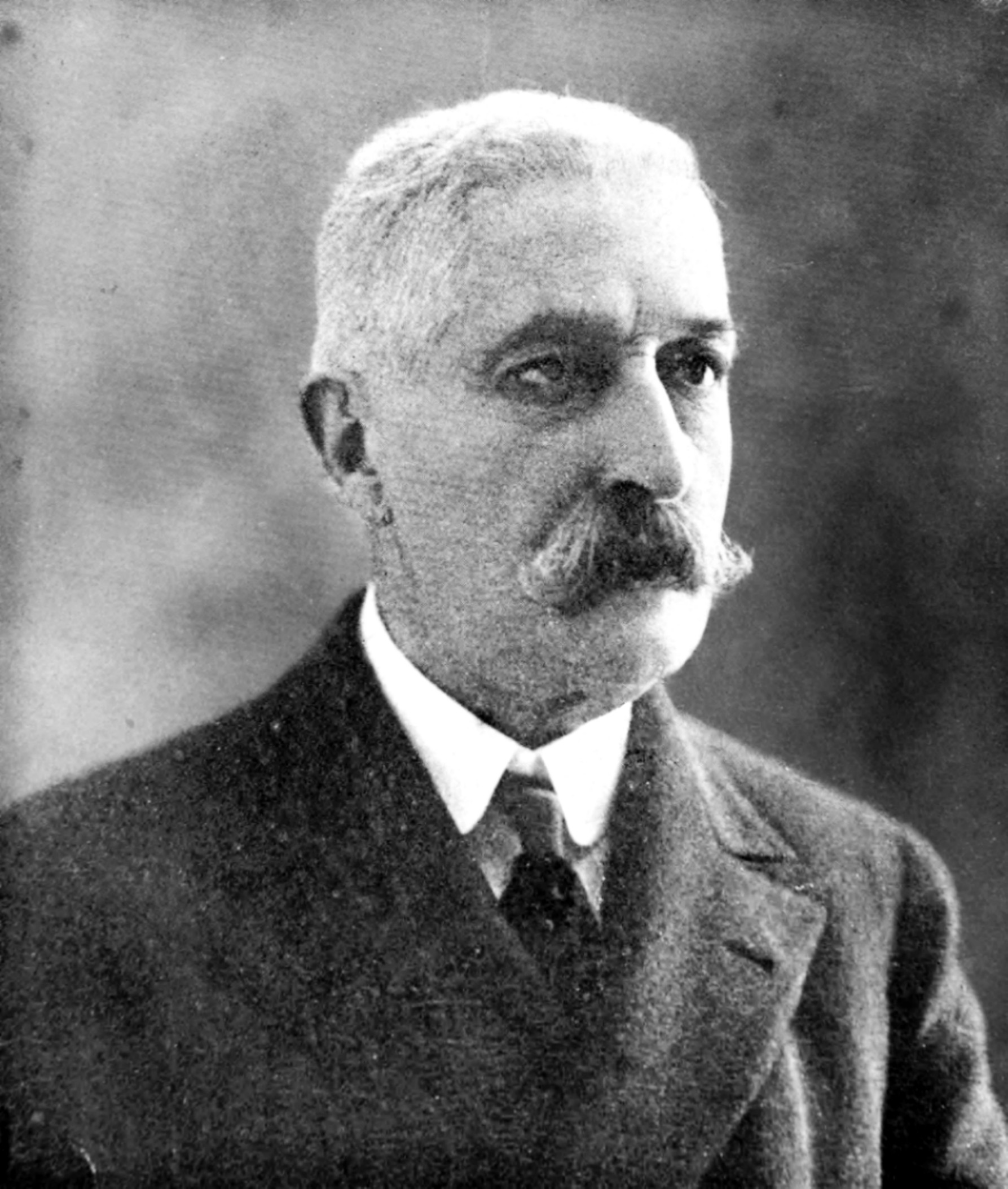 Portrait of Giovanni Verga (1840-1922)